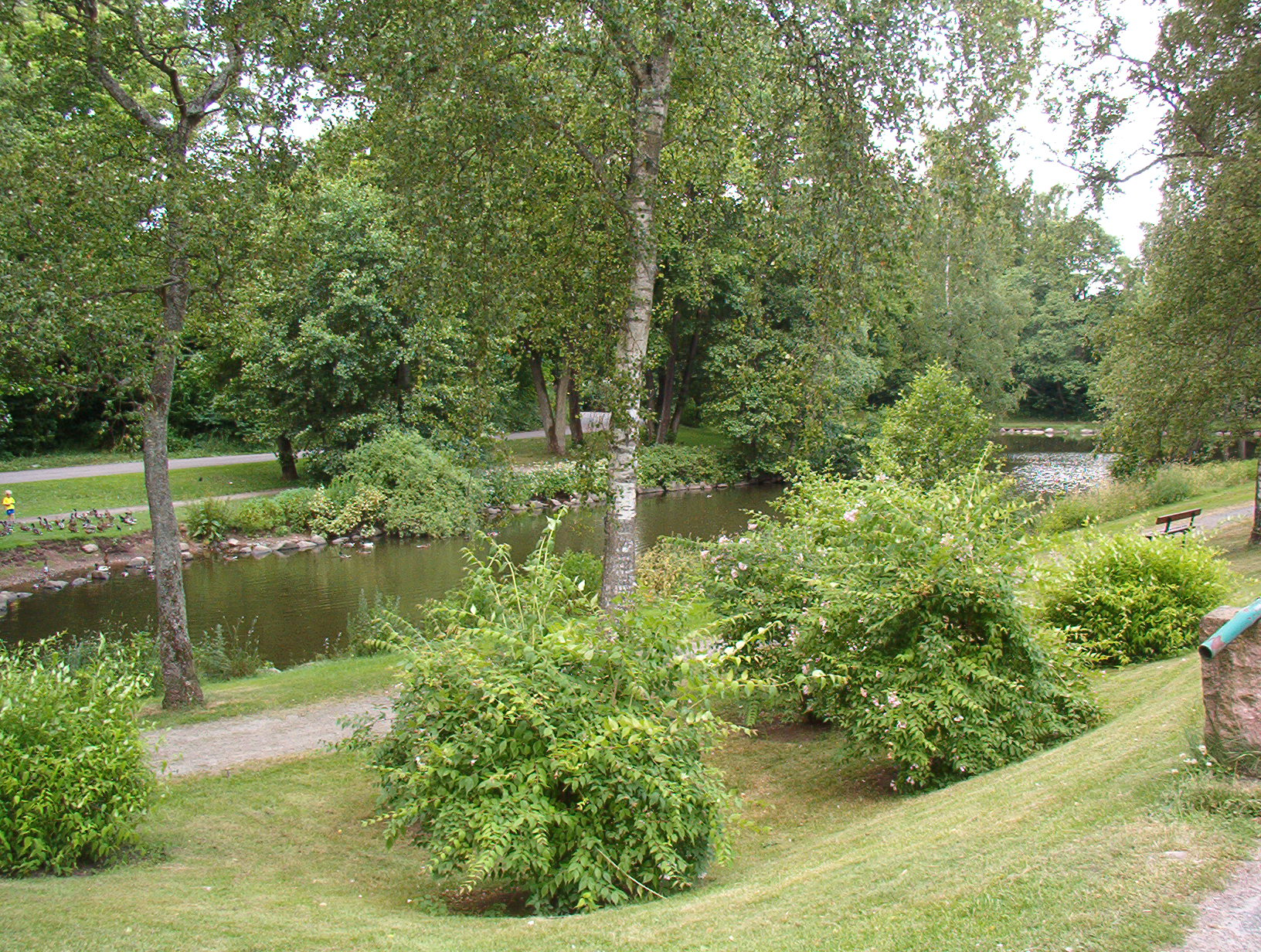 One of the two artificial lakes in central Höör, a town in the centre of Skåne/Scania in southern Sweden with some 7,000 inhabitants. Taken by me the date of upload on a lovely summer afternoon.